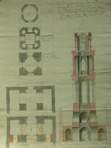 s.o.